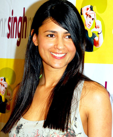 Press conference of the film Mr Singh Mrs Mehta with its actress Aruna Shields at Spice World Mall Noida